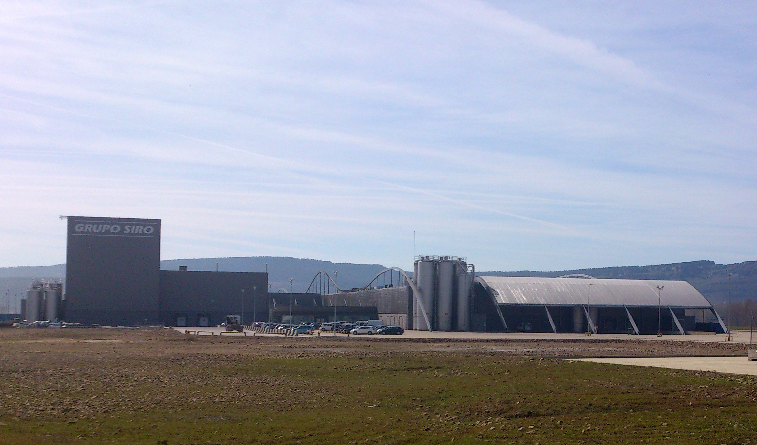 Grupo Siro factory in Aguilar de Campoo (Spain)